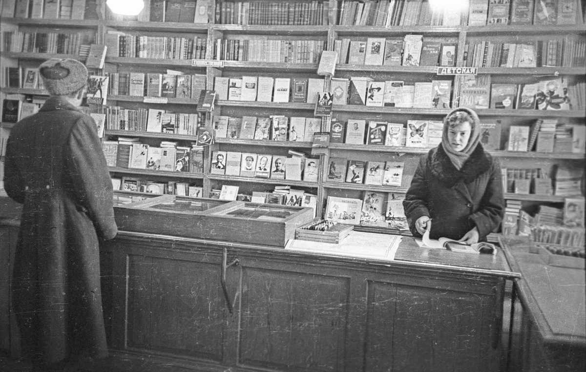 Pereslavl, Rostov Street, Building 6. Bookstore. Shelf of children's literature.